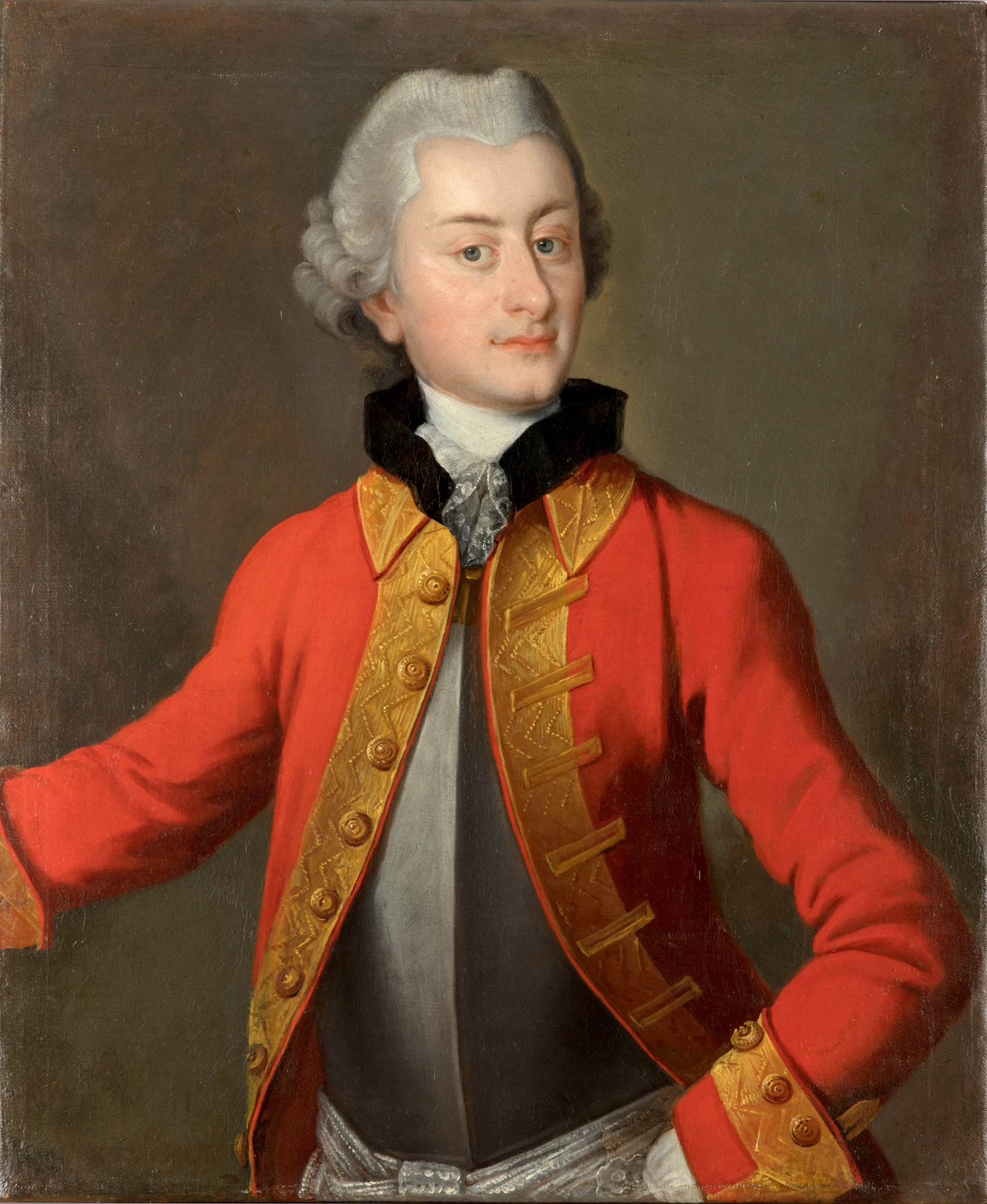 Portrait of Seweryn Rzewuski (1743-1811)